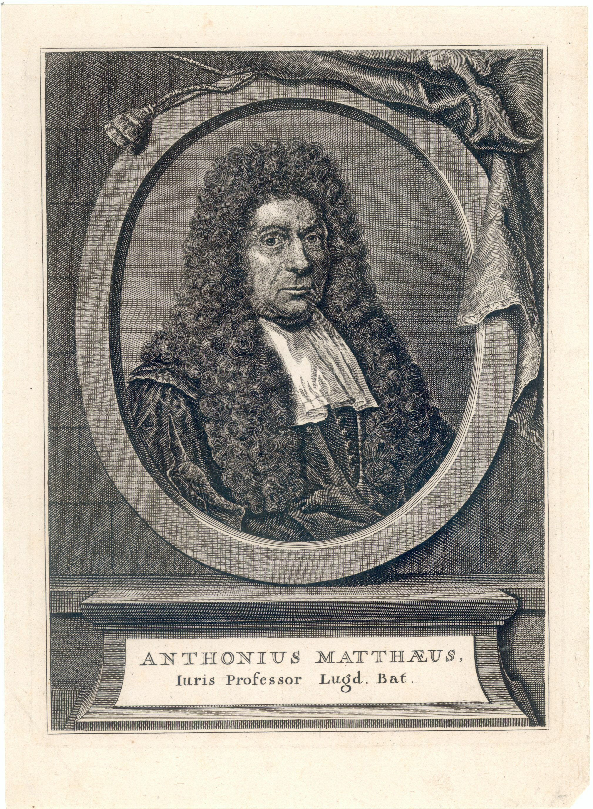 Anton Matthaeus (1635–1710) German jurist